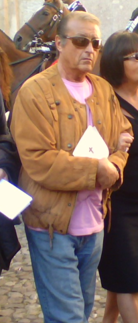 Tony Renis, Italian composer, songwriter, music producer and actor. Photo taken at Luciano Pavarotti's funerals in Modena (2007).